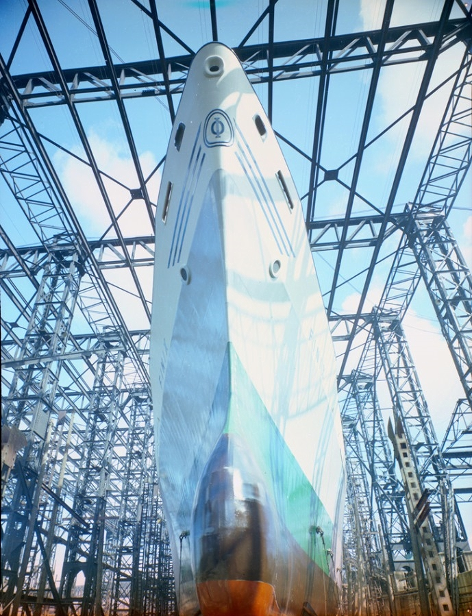 Bow view of the cargo ship 'Finix' ready for launch at the Pallion Yard of the Doxford & Sunderland Shipbuilding & Engineering Co Ltd, Sunderland, 18 April 1969 (TWAM ref. DT.TUR/4/4222B). Tyne & Wear Archives is proud to present a selection of images from its Sunderland shipbuilding collections. The set has been produced to celebrate Sunderland History Fair on 7 June 2014. It's a reminder of the thousands of vessels launched on the River Wear and the many outstanding achievements of Sunderland’s shipyards and their workers. These photographs reflect Sunderland’s history of innovation in shipbuilding and marine engineering from the development of turret ships in the 1890s through to the design for SD14s in the 1960s. The Sunderland shipbuilding collections are full of fascinating stories. Some of these are represented in this set, such as the ‘Rondefjell’, launched in two halves on the River Wear by John Crown & Sons Ltd and then joined together on the River Tyne. The set also shows the vital part that Sunderland’s shipbuilding industry played during the First World War. William Doxford & Sons Ltd built Royal Naval destroyers such as HMS Opal, which served in the Battle of Jutland, while other yards constructed cargo ships to help keep these shores supplied. (Copyright) We're happy for you to share these digital images within the spirit of The Commons. Please cite 'Tyne & Wear Archives & Museums' when reusing. Certain restrictions on high quality reproductions and commercial use of the original physical version apply though; if you're unsure please